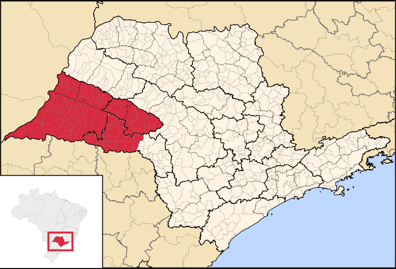 Oeste Paulista